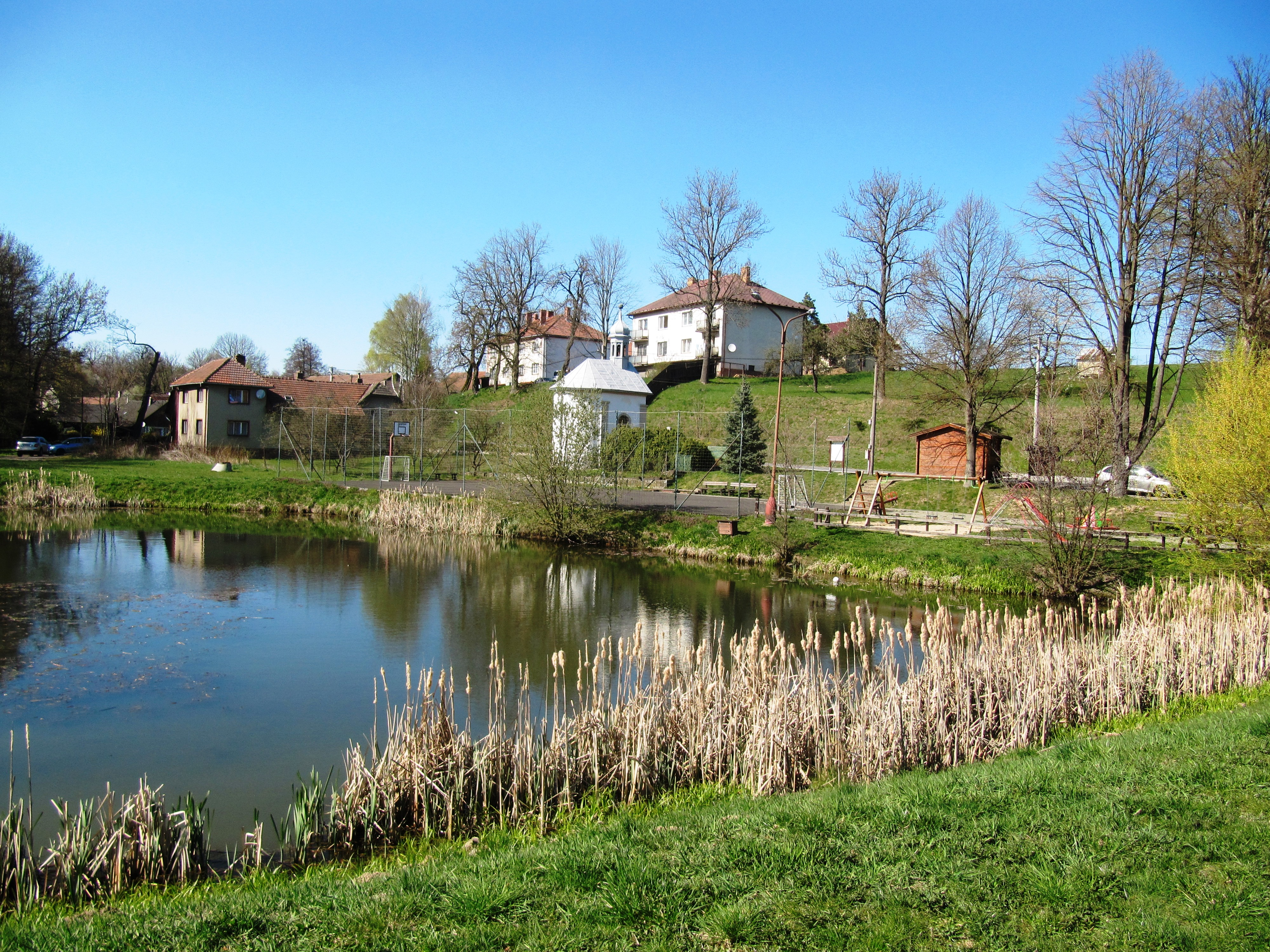 Bystřice nad Pernštejnem, Žďár nad Sázavou District, Czechia, part Domanín.